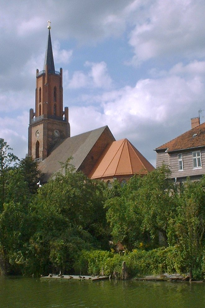 Church in Rathenow in Brandenburg, Germany